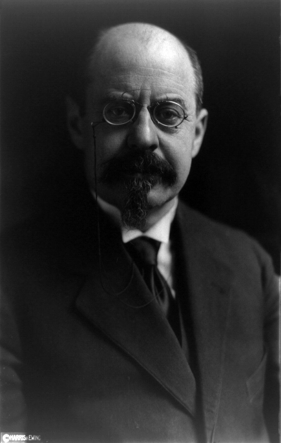 Belgian politician Émile Vandervelde (1866-1938)